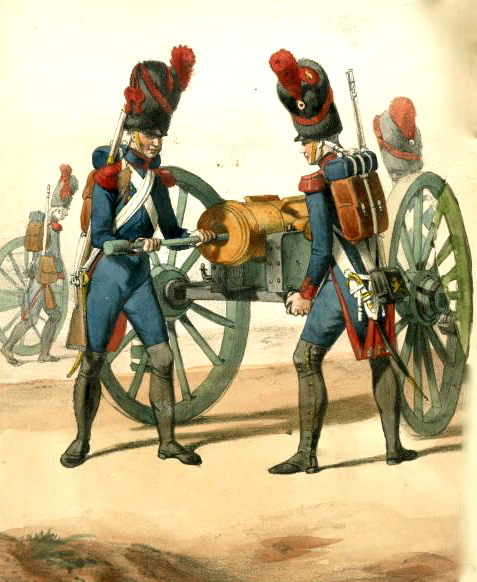 French Guard Foot artillery. A heavy 12-pounder cannon (Gribeauval system) with two servants.